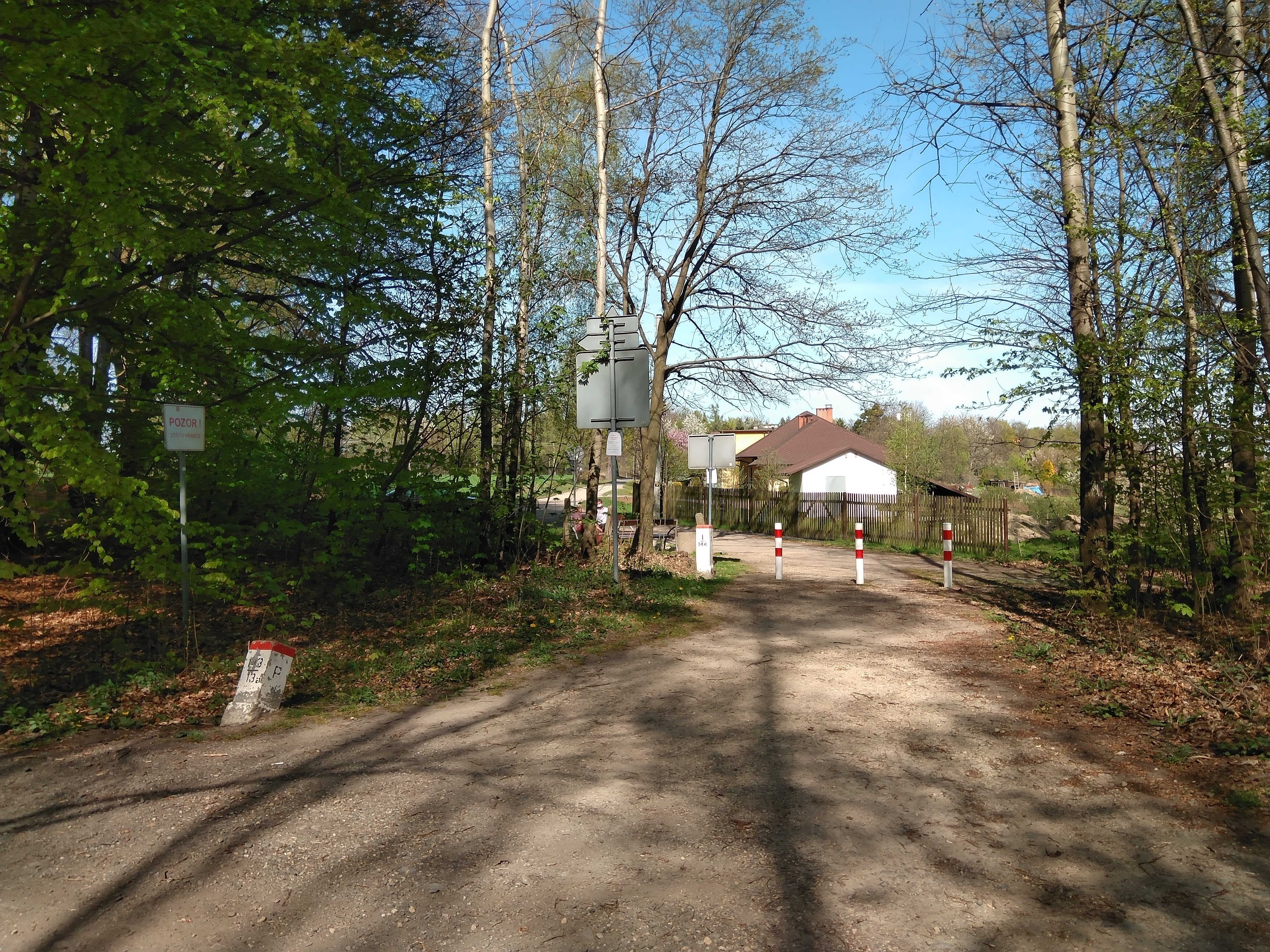 Czech-Polish border between Prstná and Jastrzębie-Zdrój